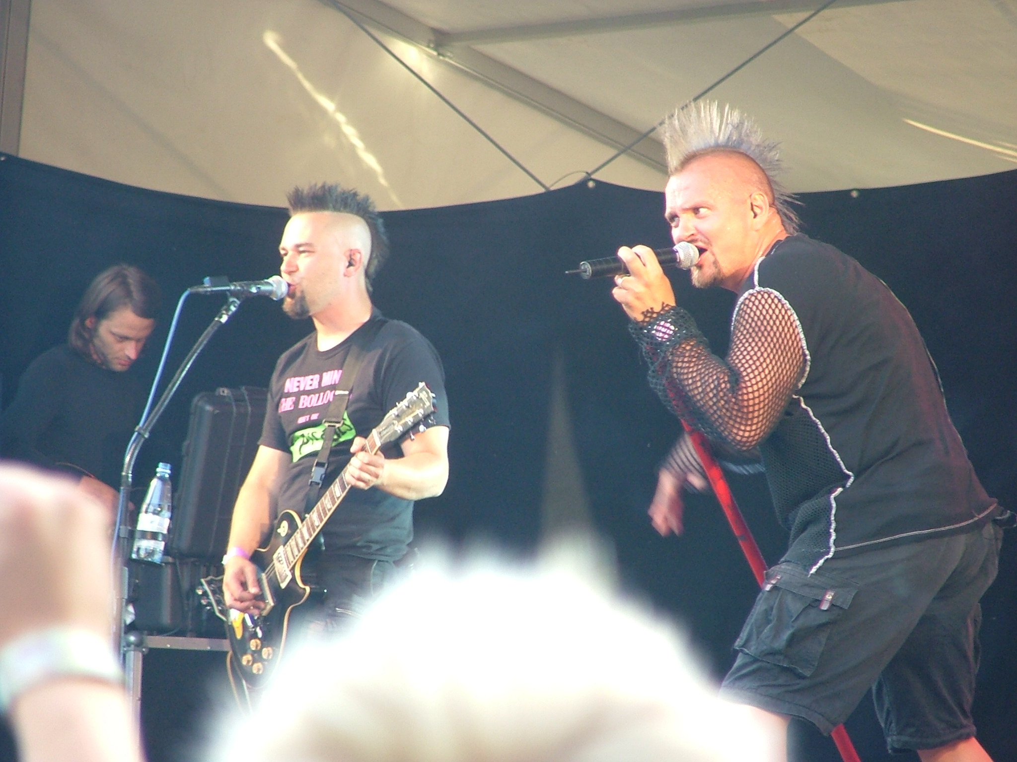 Guitar-player Jari ”Jakke”/”Shitsi” Helin and singer Vesa "Vesku" Jokinen of Finnish punkrock-band Klamydia in Kuopio at Rockcock-musicfestival